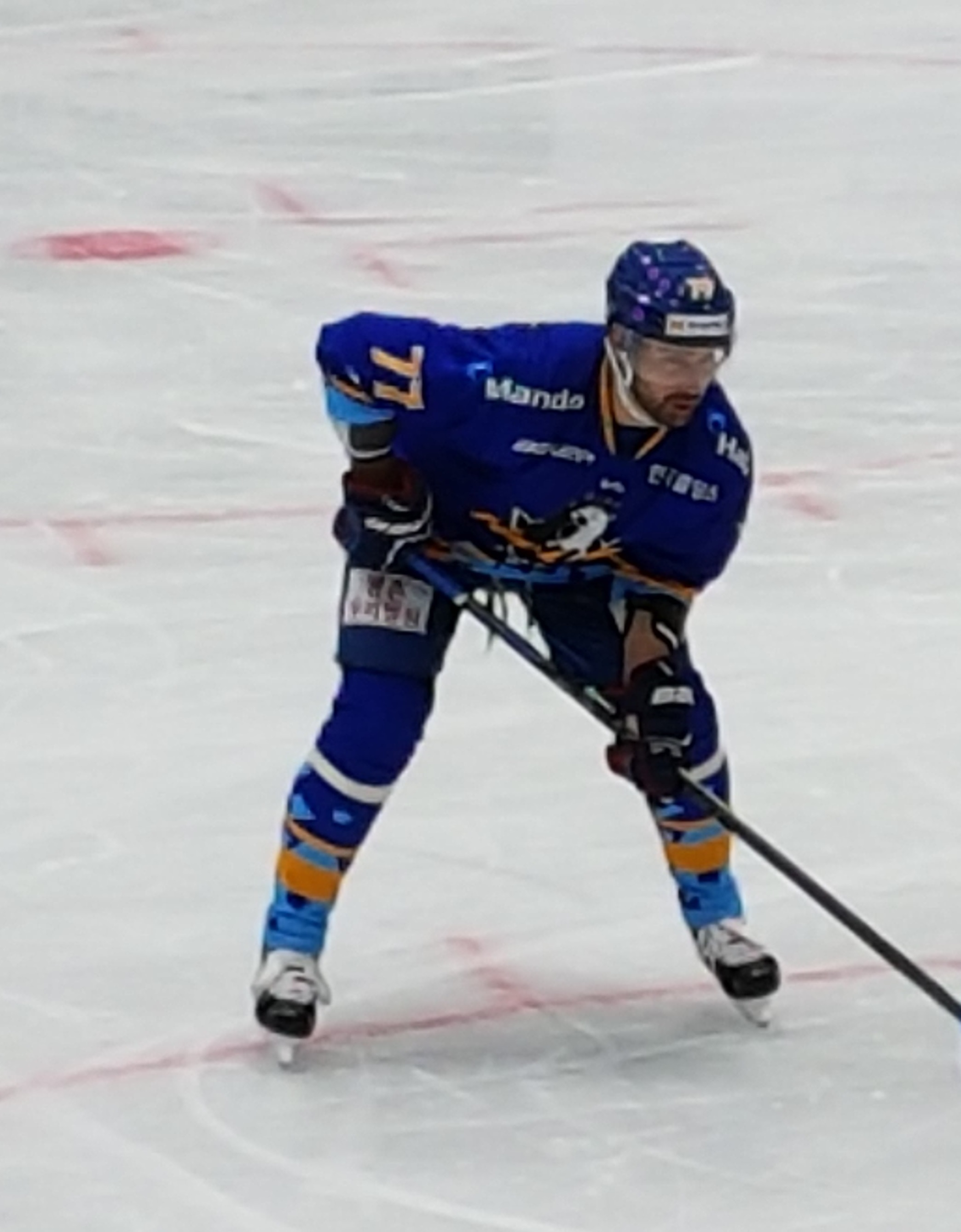 Ruslan Bernikov of Anyang Halla in a game against the Daemyung Killer Whales on September 16, 2017